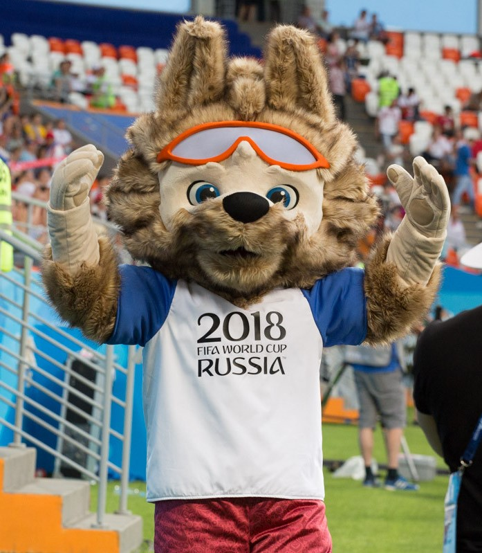 Zabivaka